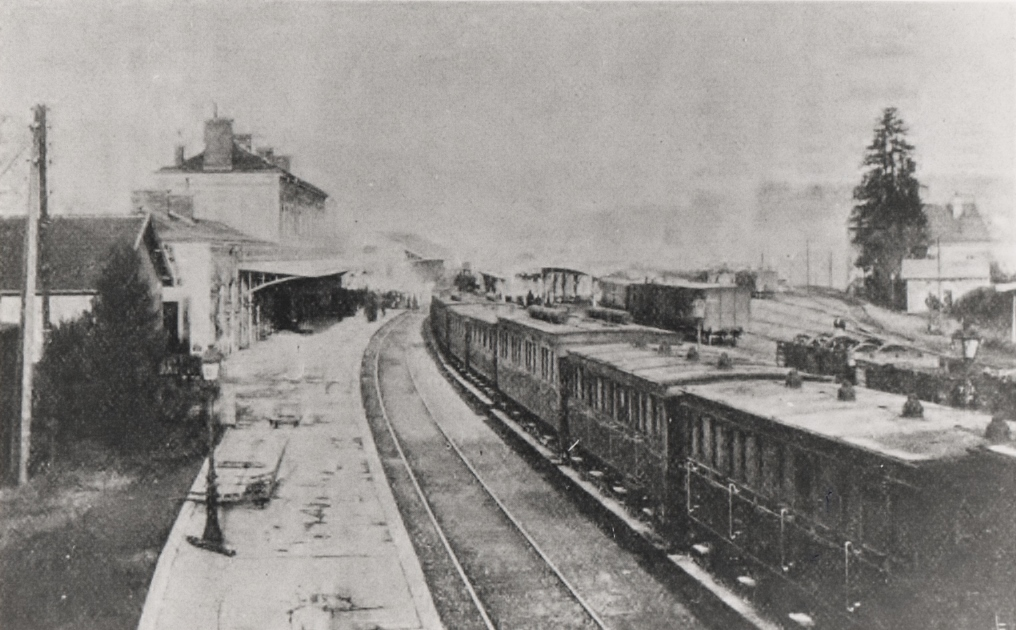 Picture of the city of Chambéry railway station (Savoie, France), in 1884 after its recent extension.